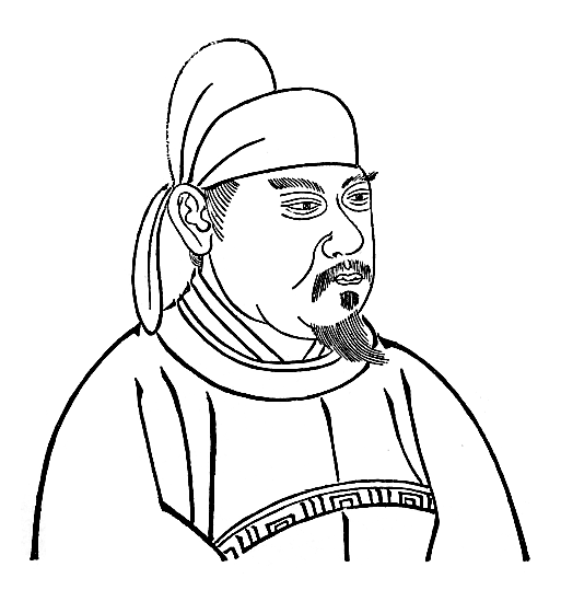 Li Yu, Nan-Tang Dynasty Last Emperor, "歷代君臣畫像".